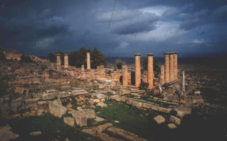 Ruins of Cyrene, Libya